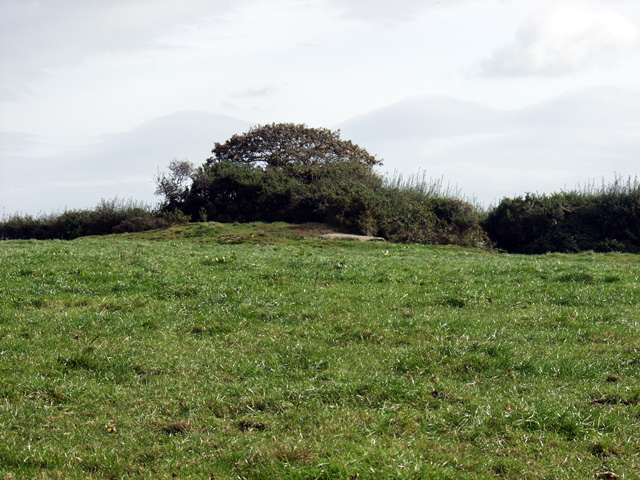 Pixie's Hall Fogou. Hidden away in the trees and bushes is a short underground passageway, known as 'Pixie's Hall'. Looking south from the road.